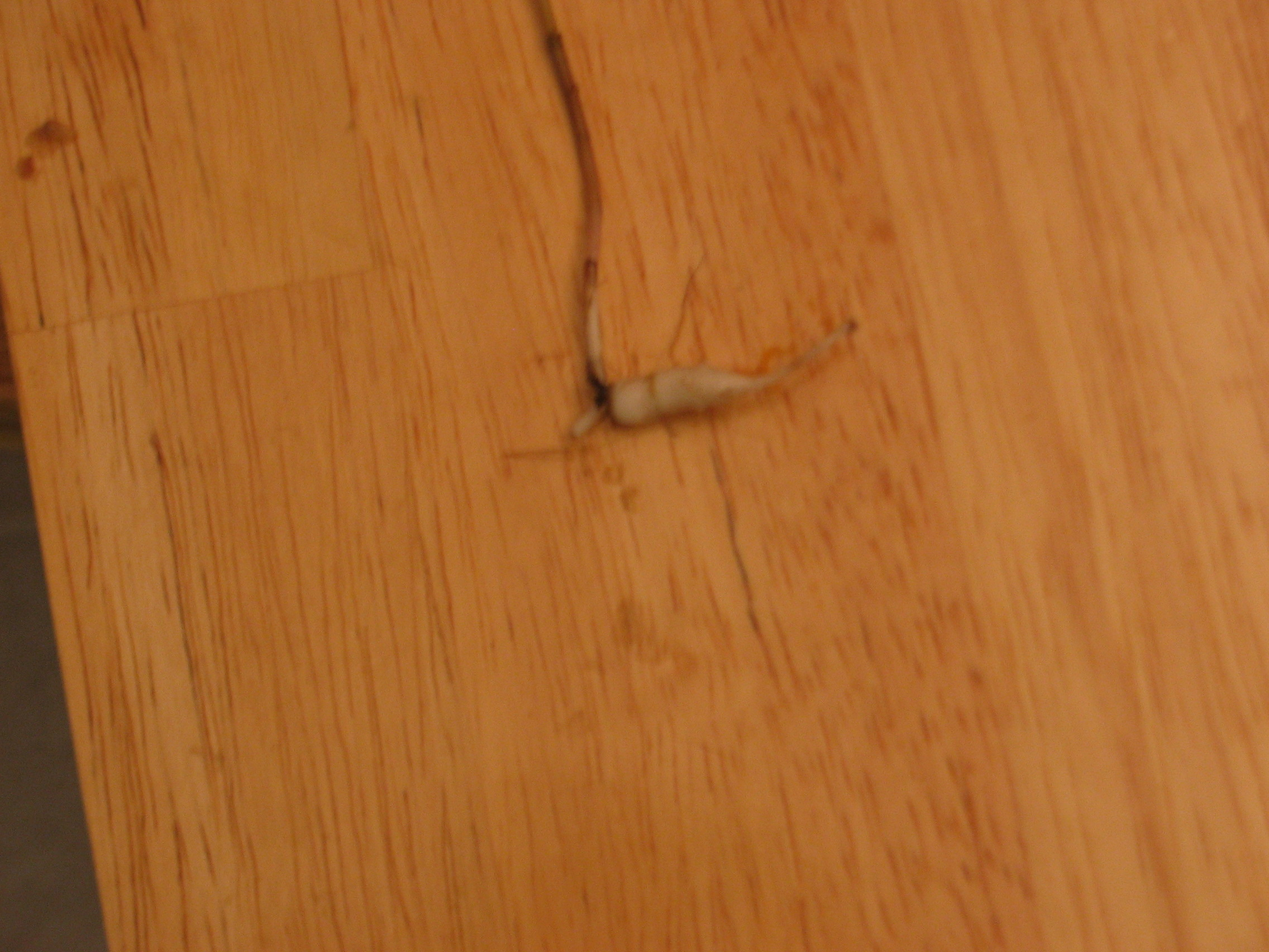 Photo of the edible tuber of a Medeola virginiana (Indian Cucumber Root) found growing in the woods in Northfield, NH.